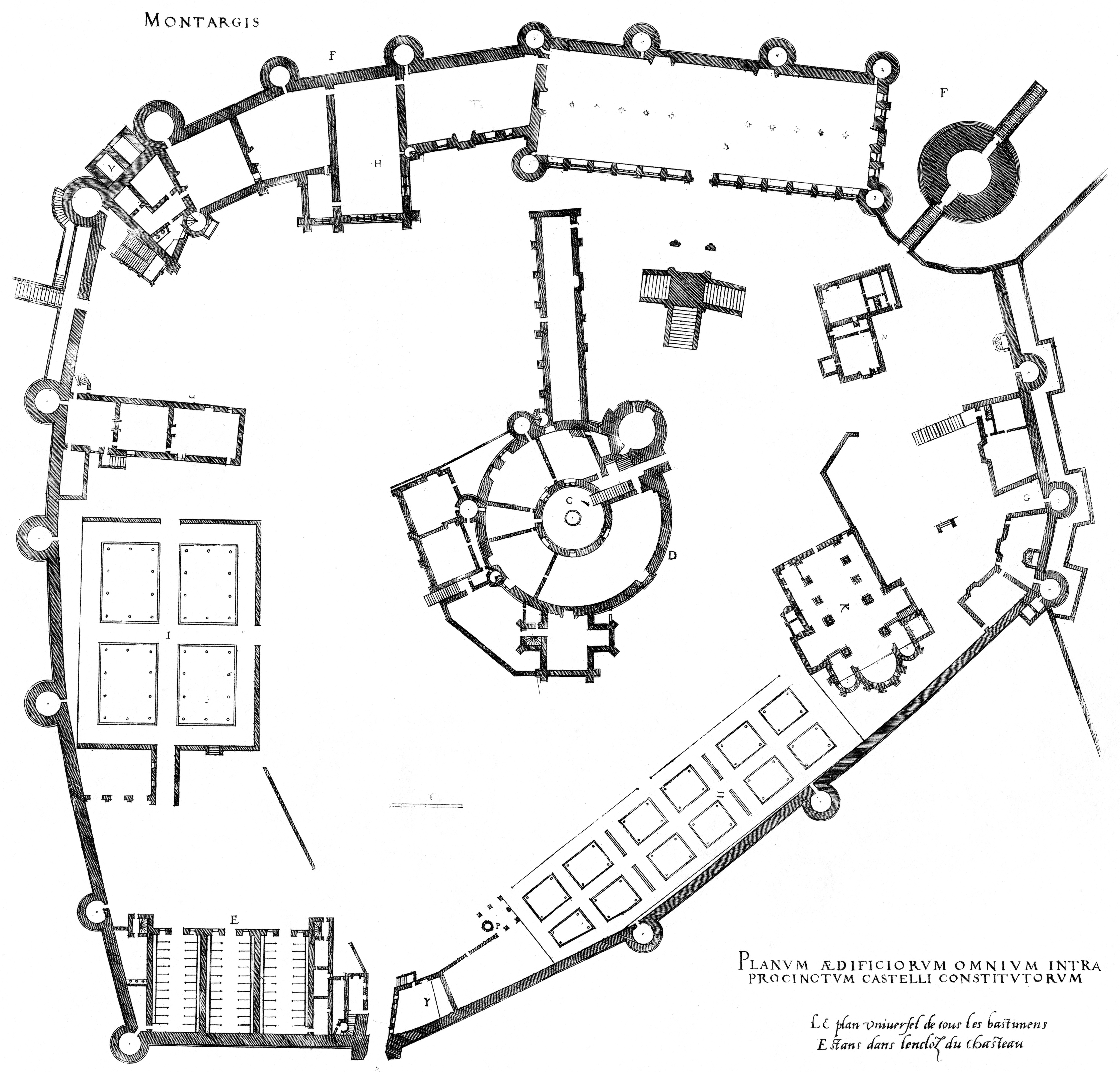 Engraving from Le premier volume des plus excellents Bastiments de France by Jacques I Androuet du Cerceau: plan of the Château de Montargis